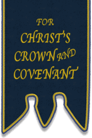 This is the blue banner of the Reformed Presbyterian Church.